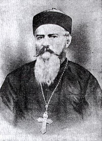 Antonino Fantosati, O.F.M.Ref. (1842-1900), Italian missionary bishop and saint